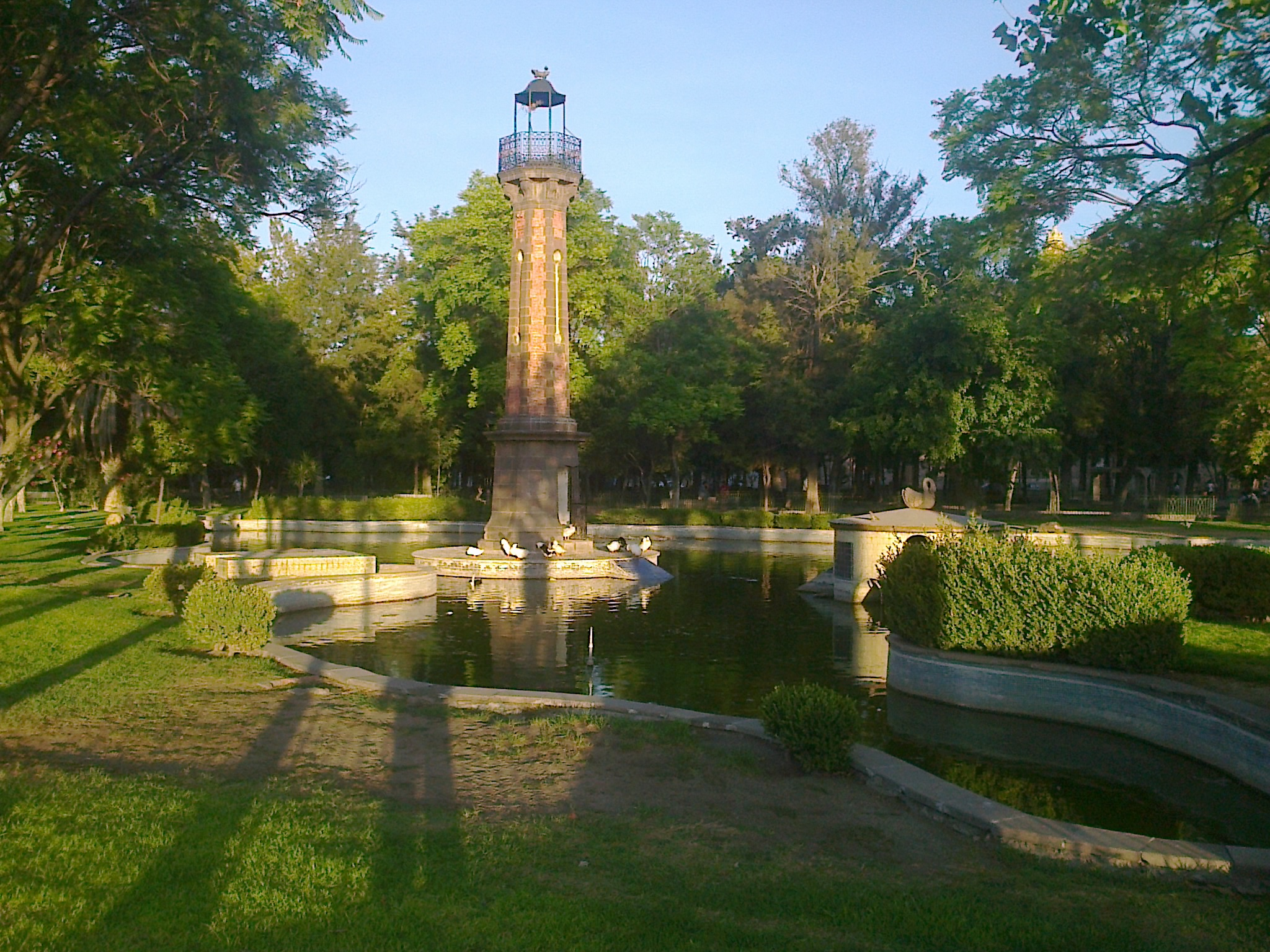 Faro del lago de la Alameda de SLP